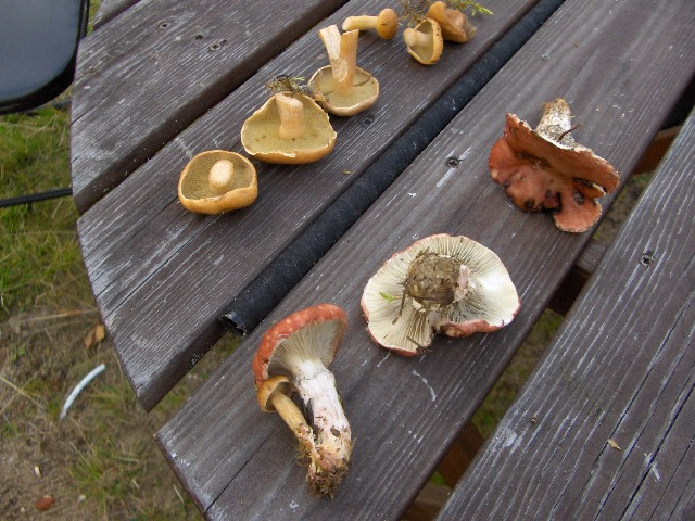 Symbiosis between mushrooms Gomphidius roseus and Suillus bovinus - this time in one stem